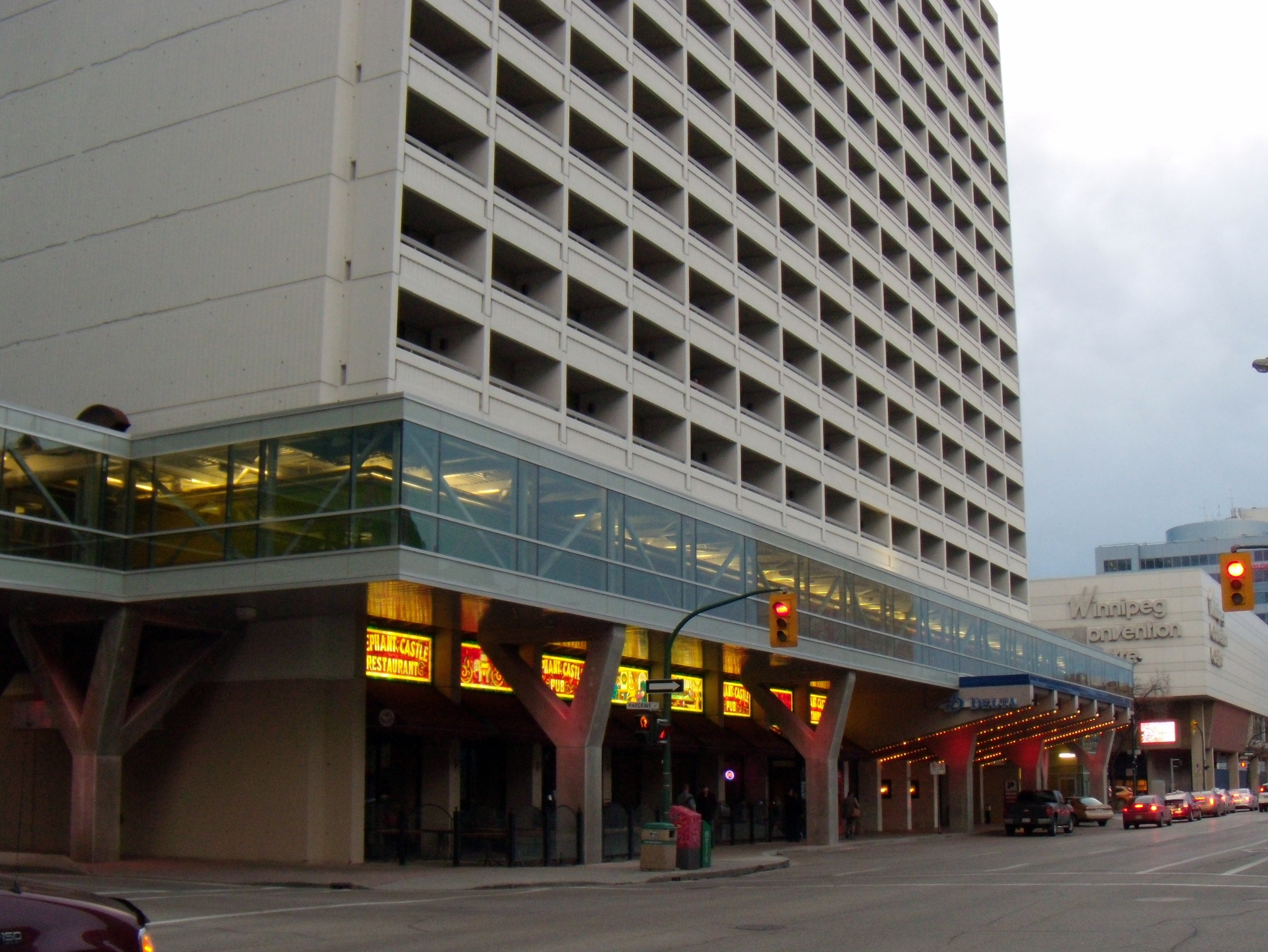 Winnipeg Walkway skywalk section wrapping around the Delta Hotel